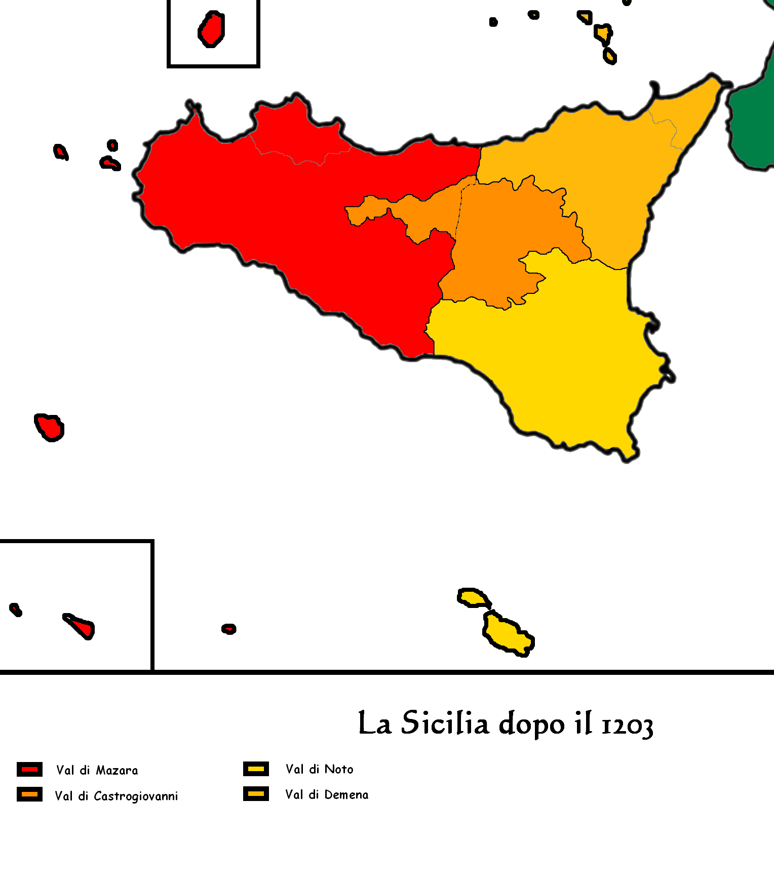 Administrative Map of Sicily during the Norman kingdom. Source: Michele Amari, Storia dei Musulmani di Sicilia, 1854 vol I